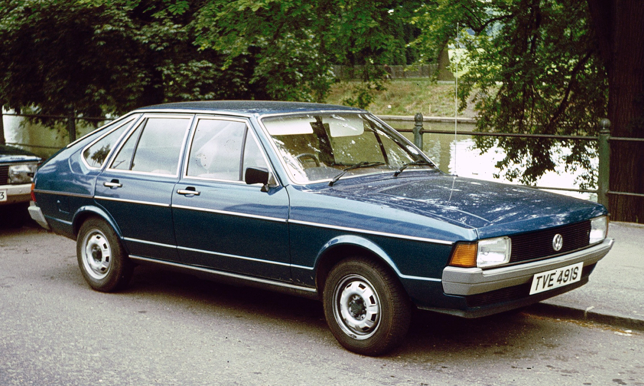 Volkswagen Passat B1 sedan post facelift Date of First Registration 01 06 1978 Year of Manufacture 1978 Cylinder Capacity (cc) 1588CC